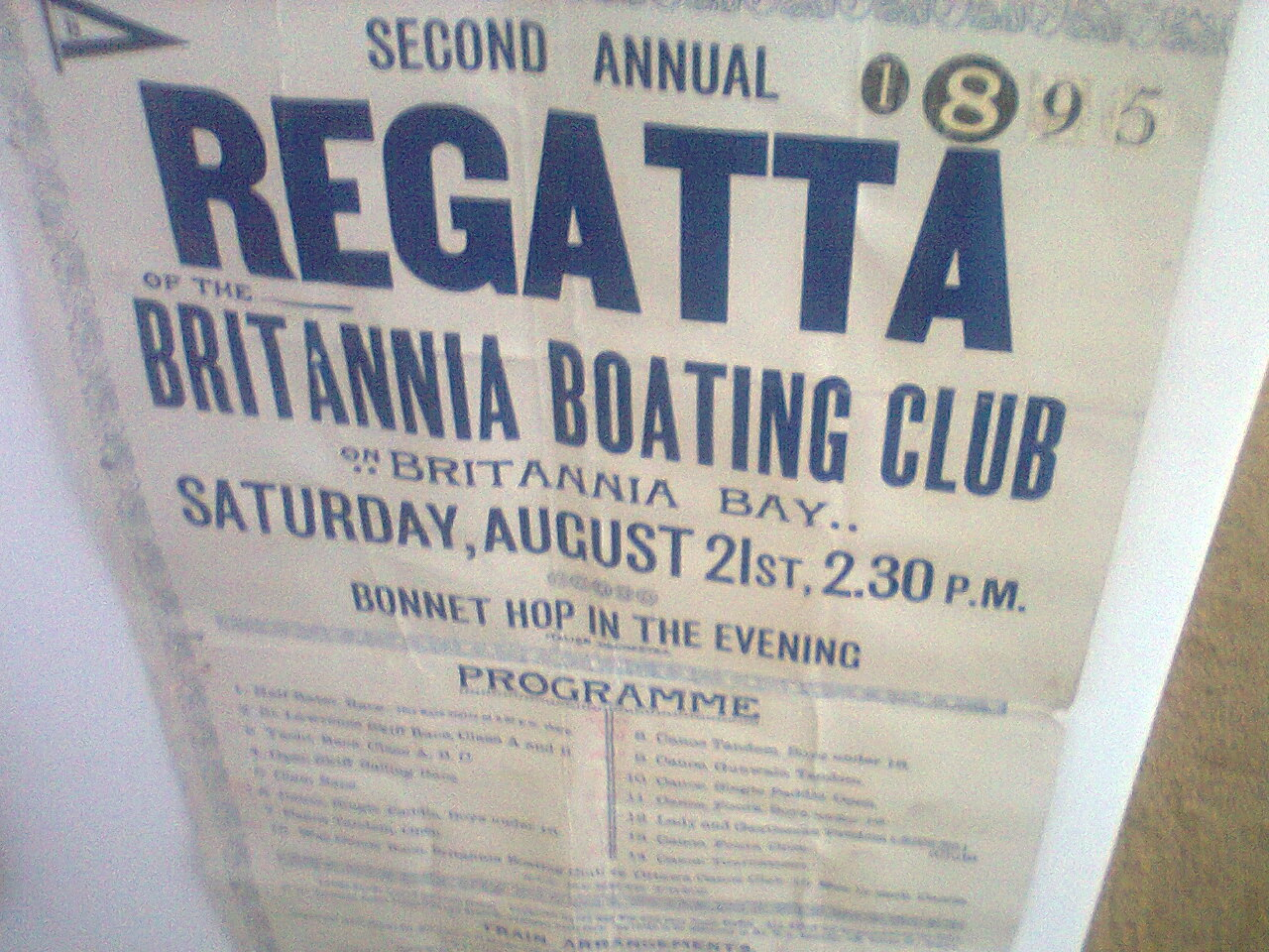 Britannia Yacht Club regatta; Ottawa, Ontario